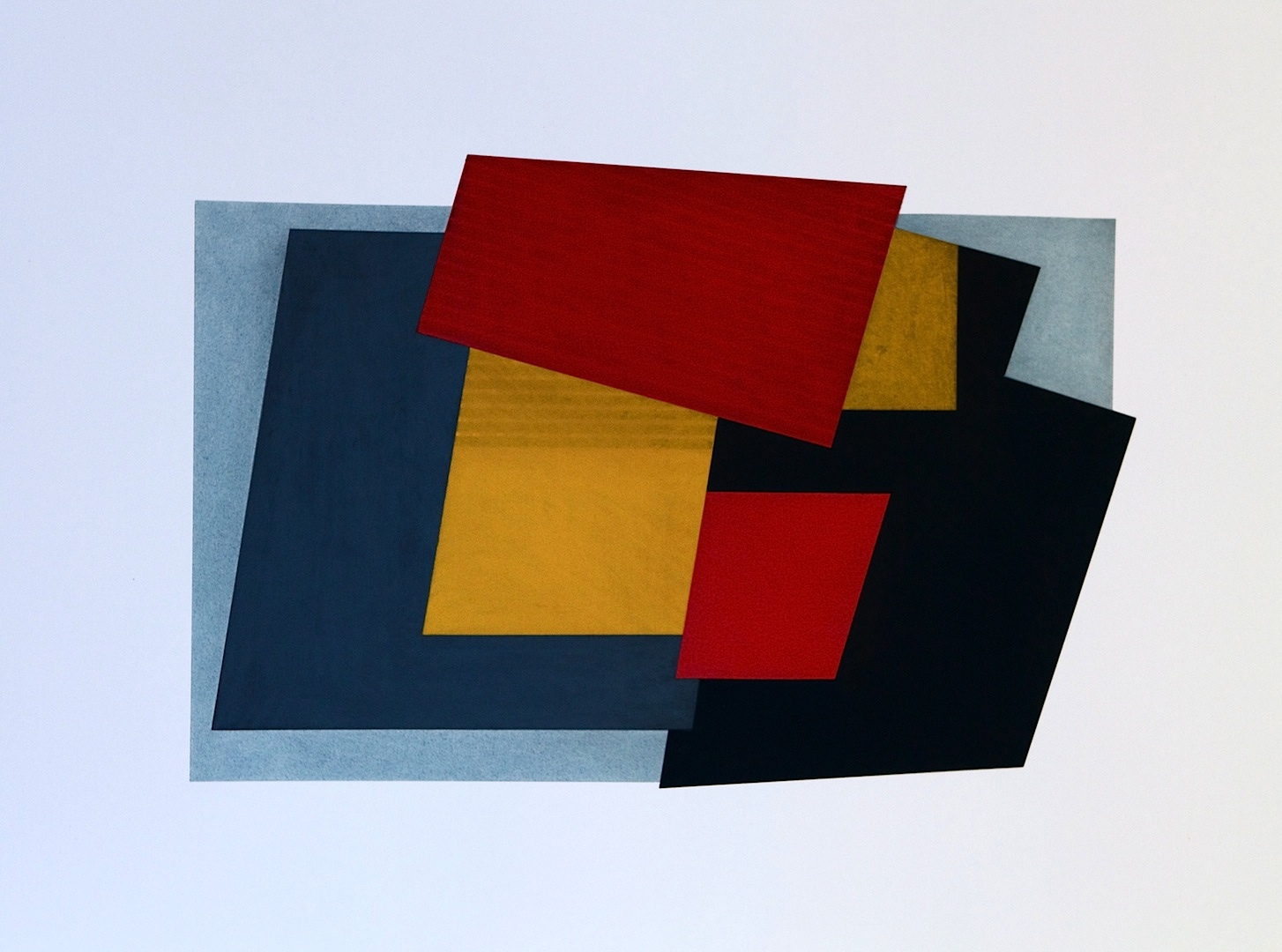 Overlappings 2